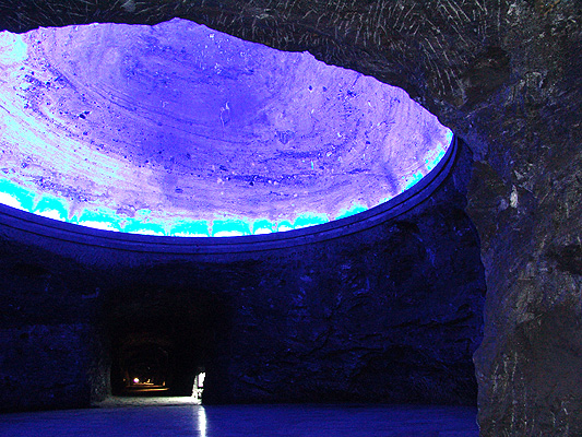 The Dome of the Salt Cathedral (Zipaquirá, Colombia) / Cúpula de la Catedral de Sal (Zipaquirá, Colombia).